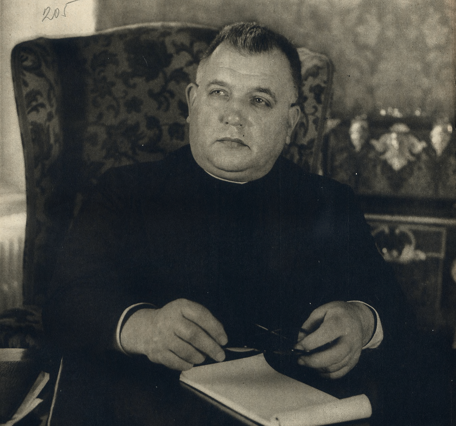 Jozef Tiso (1887-1947), party leader of the Ludaks and president of the Slovak state on the cover of the magazine Nový svet.